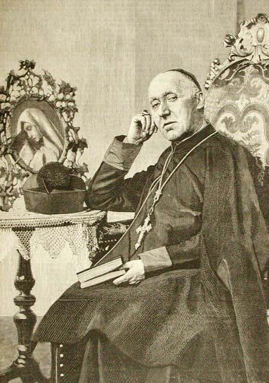 Portrait of Luigi Nazari di Calabiana, Arcbishop of Milan